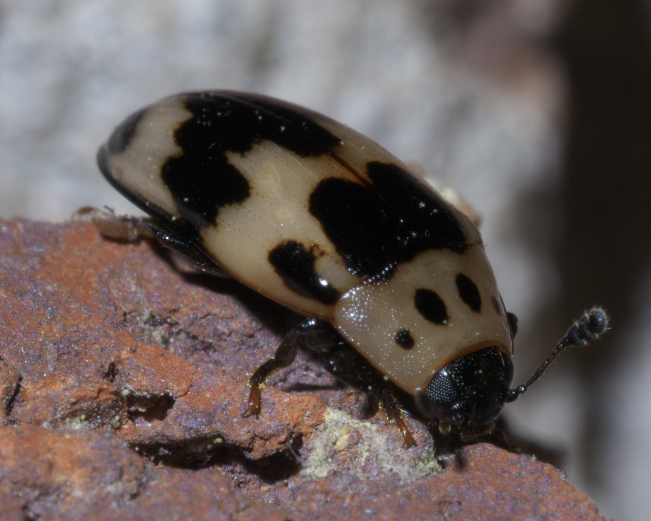 Ischyrus quadripunctatus, Four-Spotted Fungus Beetle, ID Confidence: 93